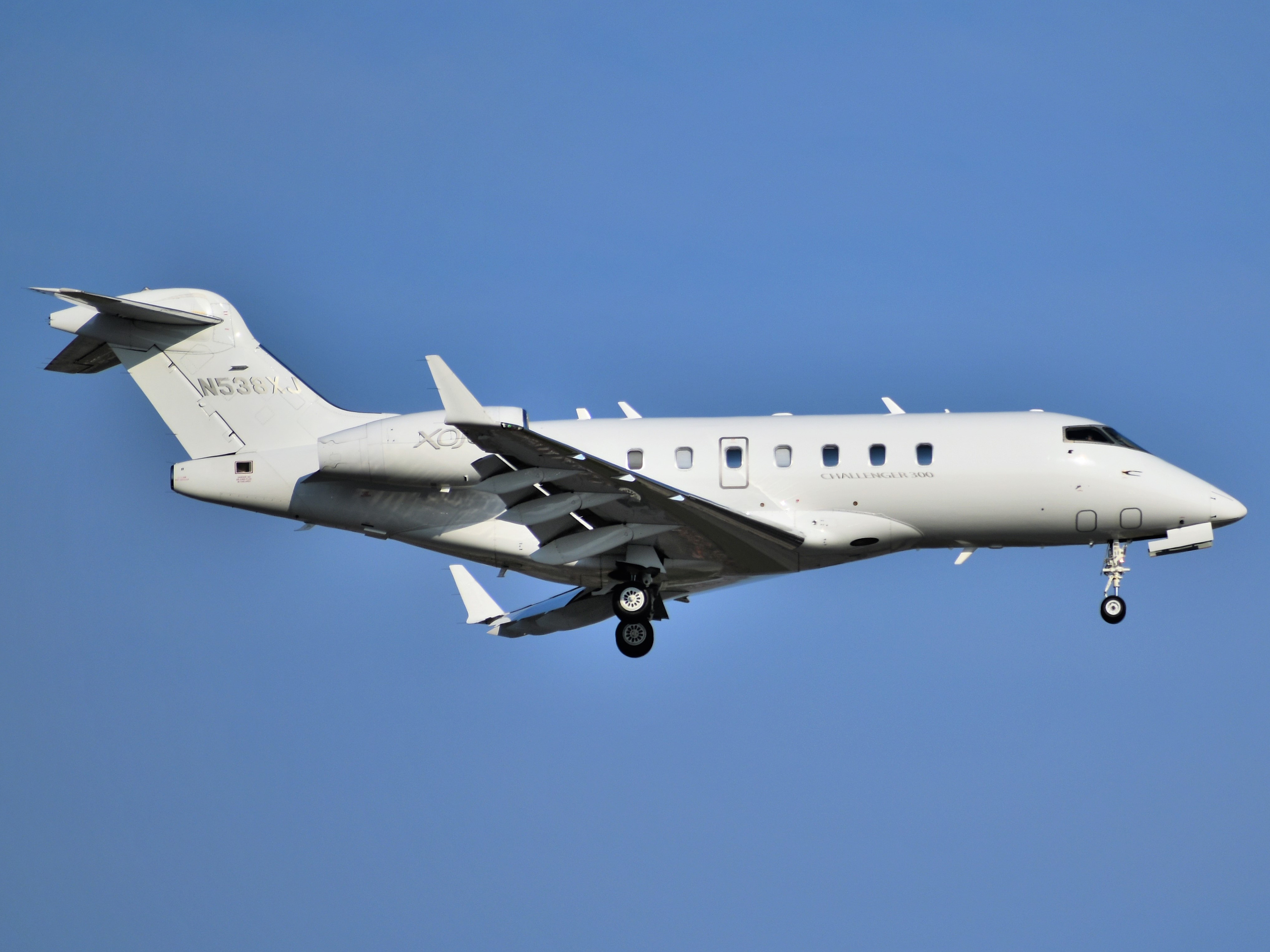 An XOJET Bombardier Challenger 300 executive jet is on final approach to Newark Liberty International Airport